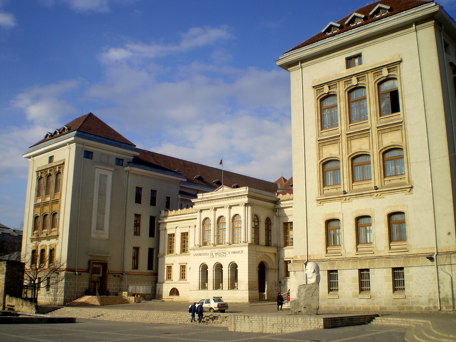 University of Medicine and Pharmacy „Grigore T. Popa“ , 1879 , Iaşi , Romania